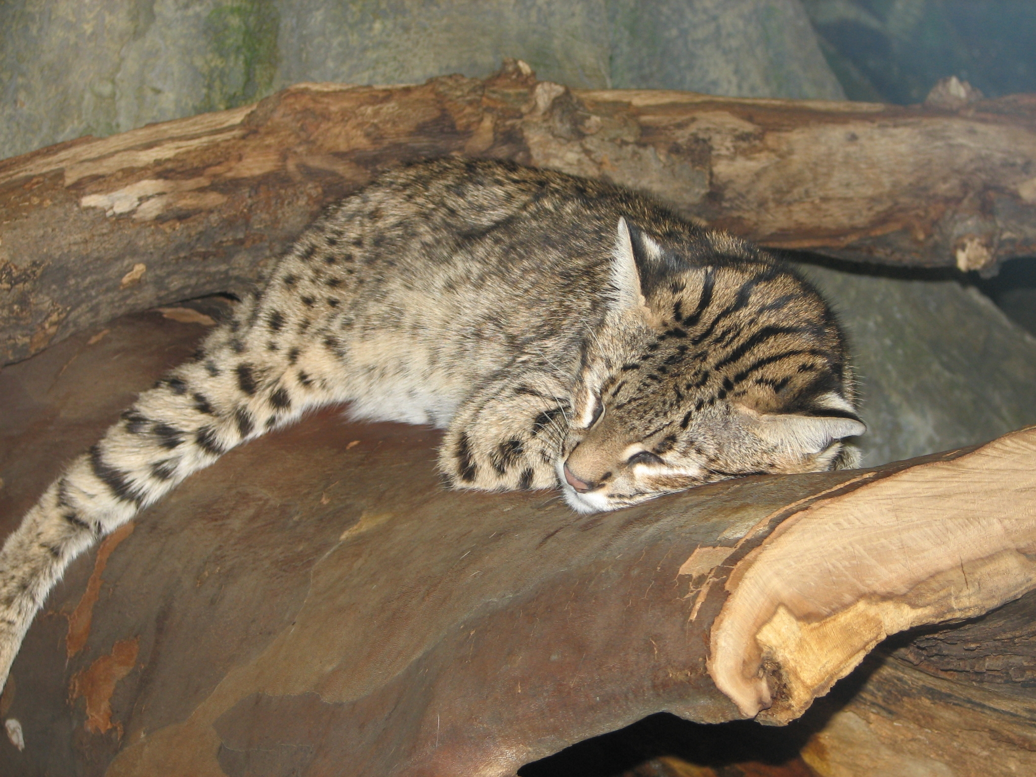 Geoffroy's Cat